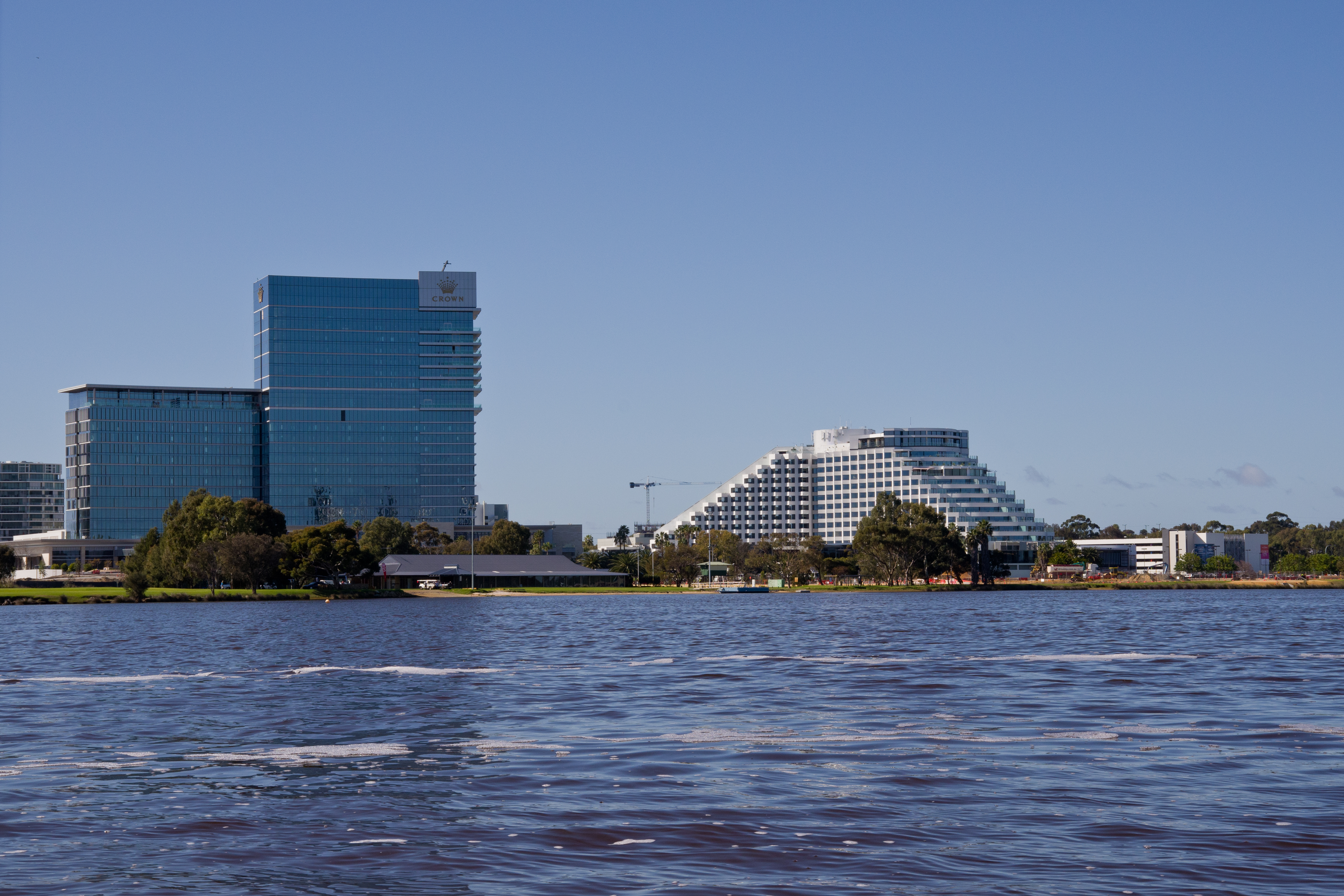 Crown Casino complex Burswood